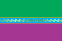 Flag of the region Starobesheve in Ukraine